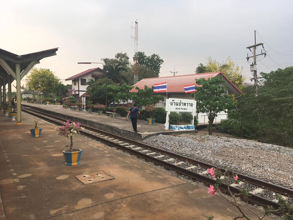 Ban Pawai Station, Lopburi in 2017.